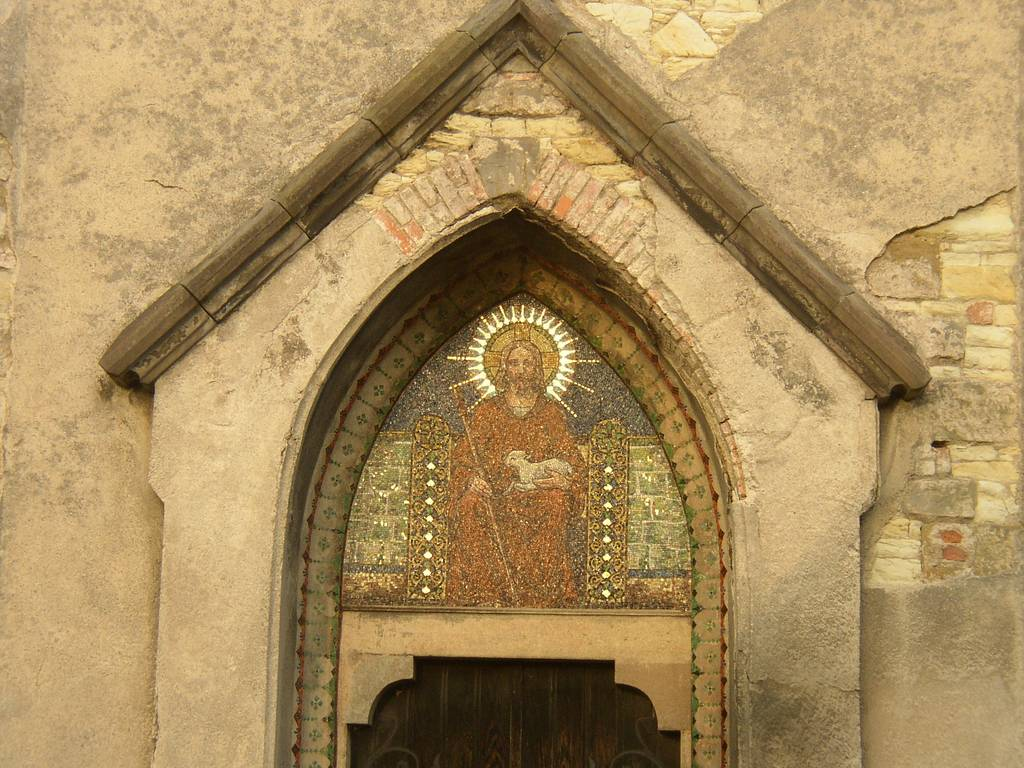 Mosaic of Christ the Good Shepherd by Viktor Foerster (1908)